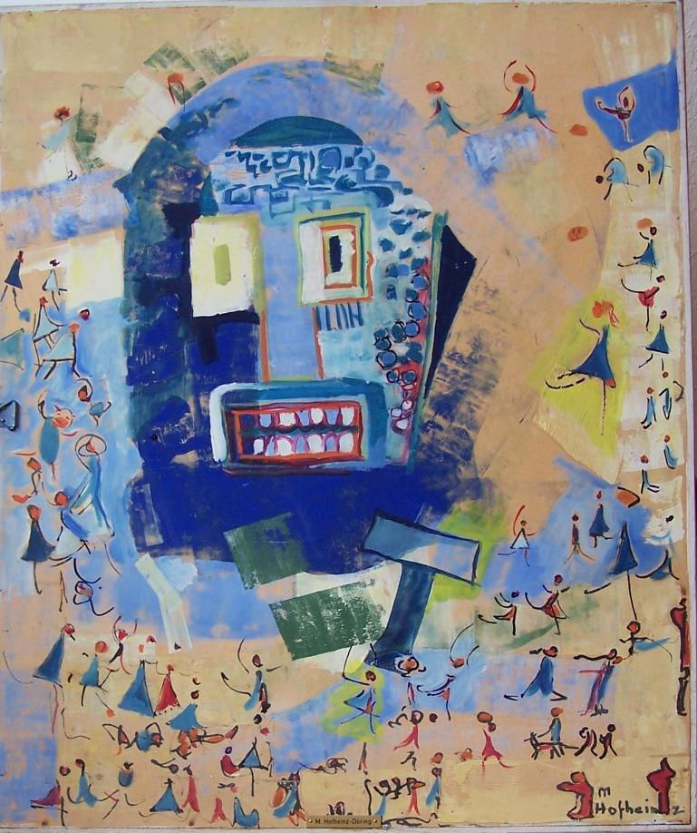 Worship of the golden Calf, Oil Painting, 56x67cm, 1962 (WV-Nr.2756), by Margret Hofheinz-Döring